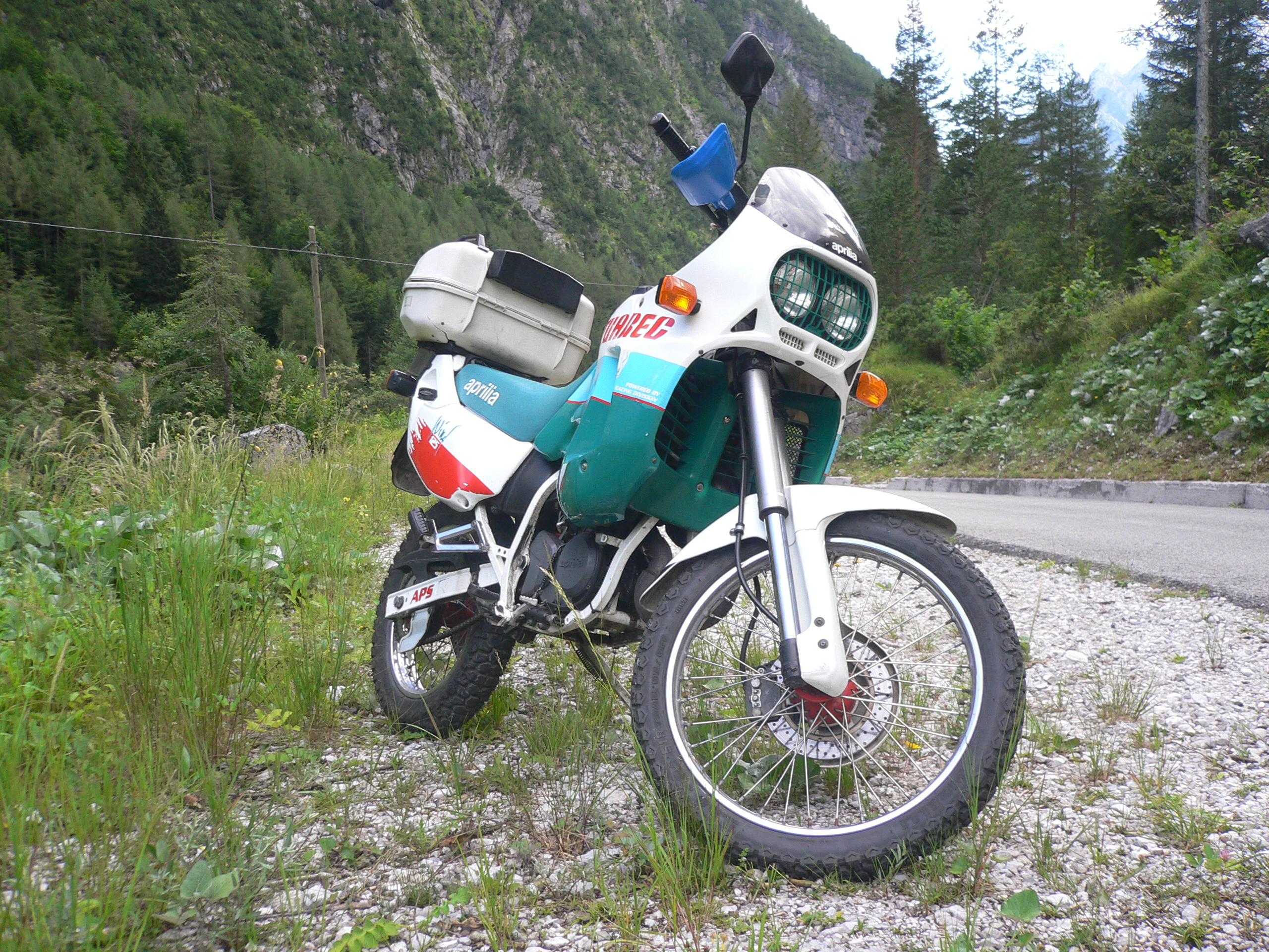 This was the last version of the Aprilia Tuareg "Wind". After will start the production of Aprilia "Pegaso"